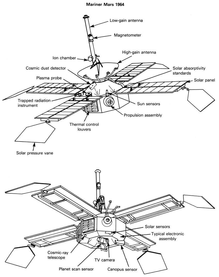 A diagrams of Mariner 3 & 4. 1964